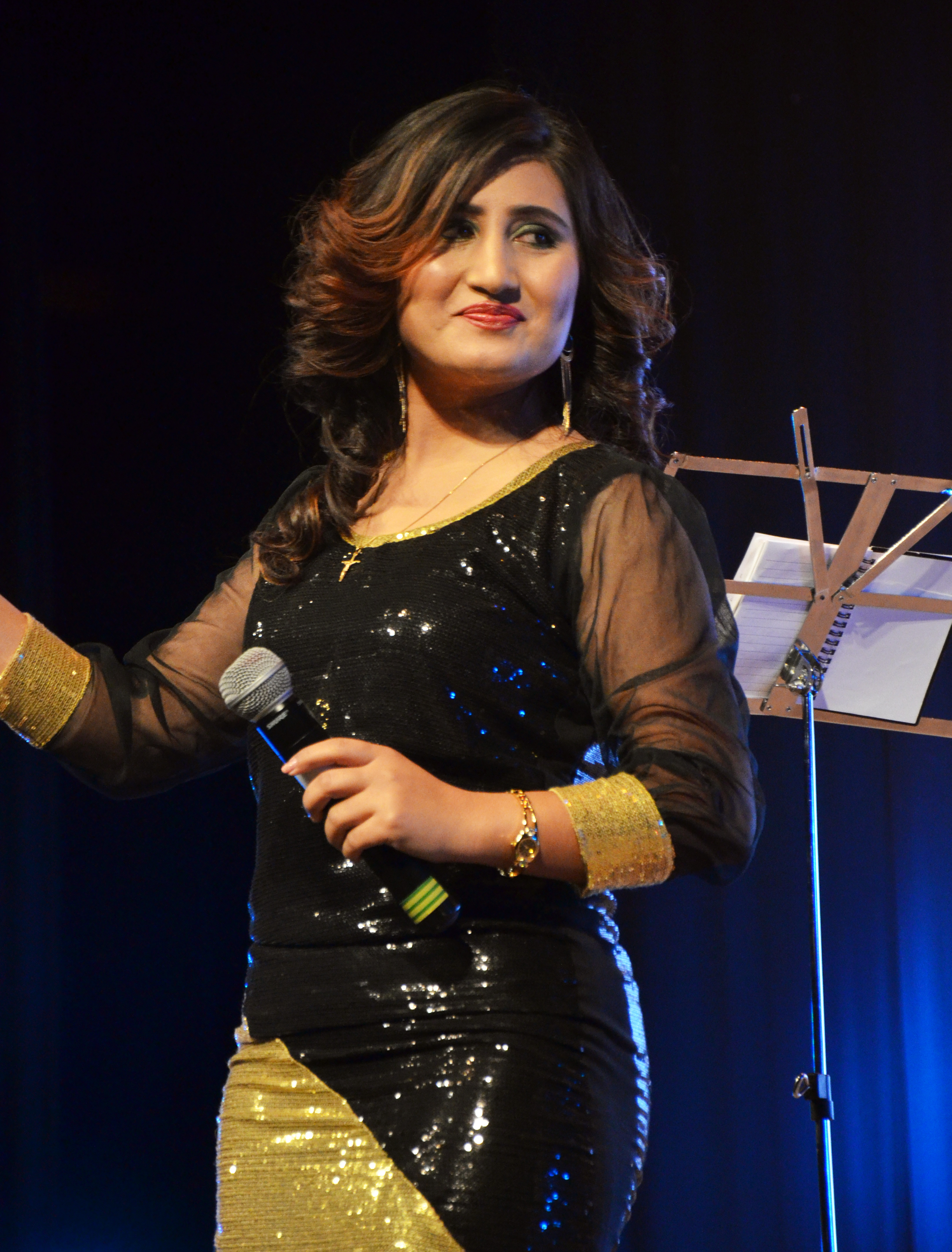 Nepalese singer Anju Panta performing with Rajesh Payal Rai in an event organised by NepaliTouch Australia in Hurstville, Sydney 2014.